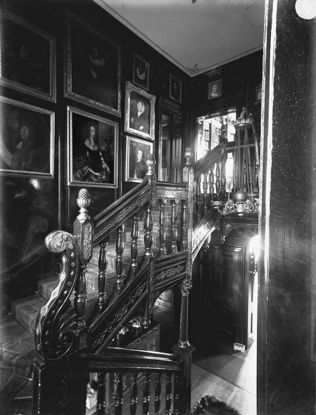 Interior view of ornate decoration in the Elizabethan interior of Hardwick House, near Bury St Edmunds, Suffolk,showing elaborately carved staircase